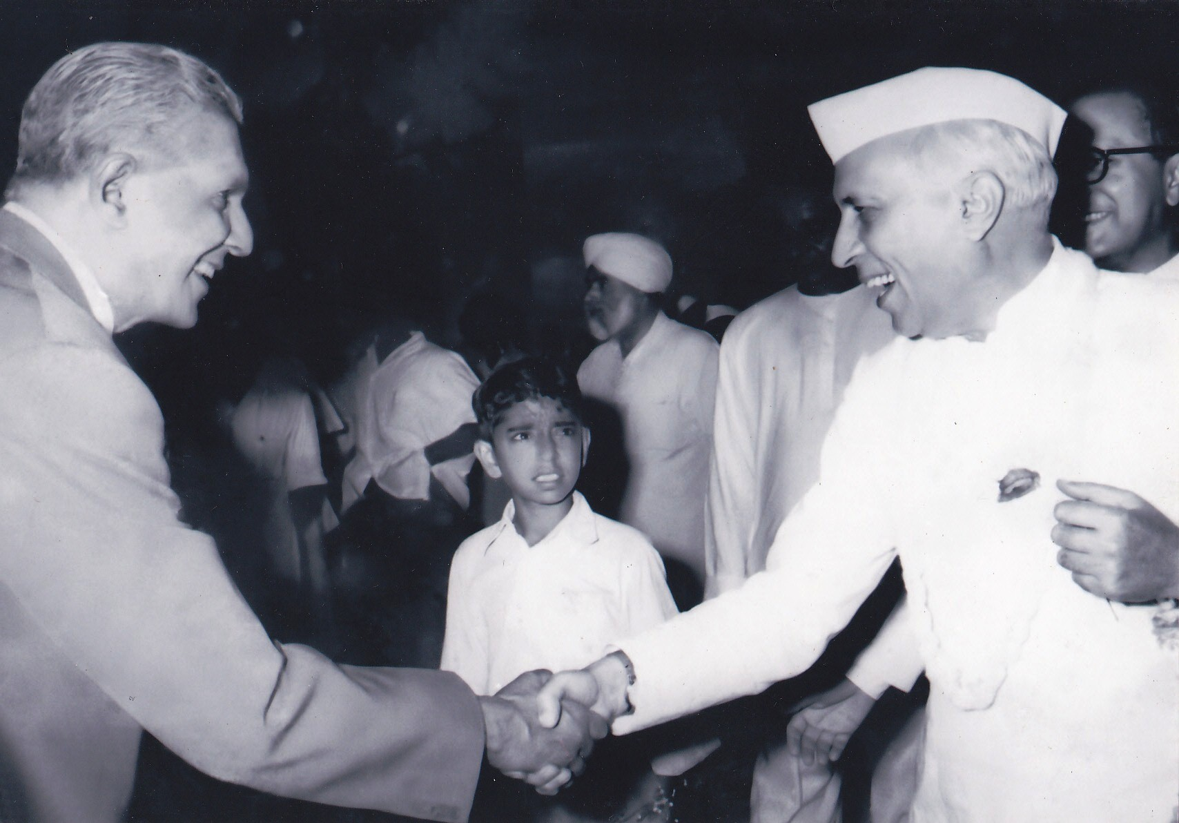 Sir Edwin Wijeyeratne with Hon.Jawaharlal Nehru, first Prime Minister of India.